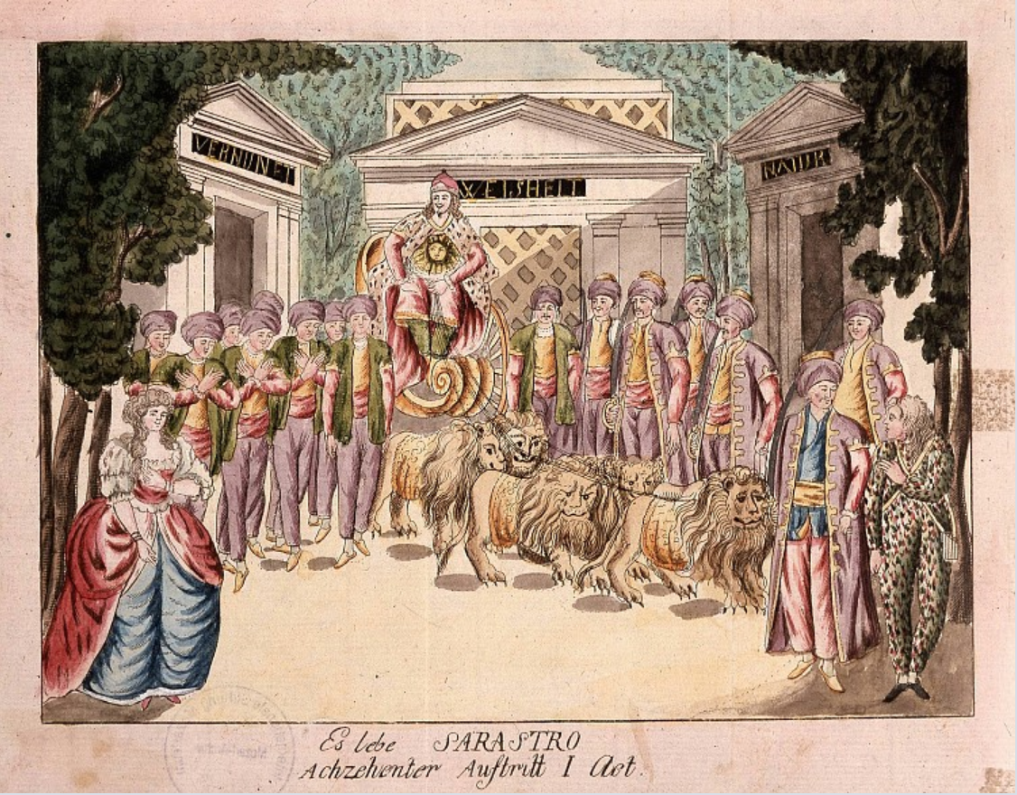 Stage design for a production of Mozart's opera The Magic Flute in Brno in 1793. The triumphal arrival of the high priest Sarastro on a chariot pulled by several lions is depicted (near end of Act I)